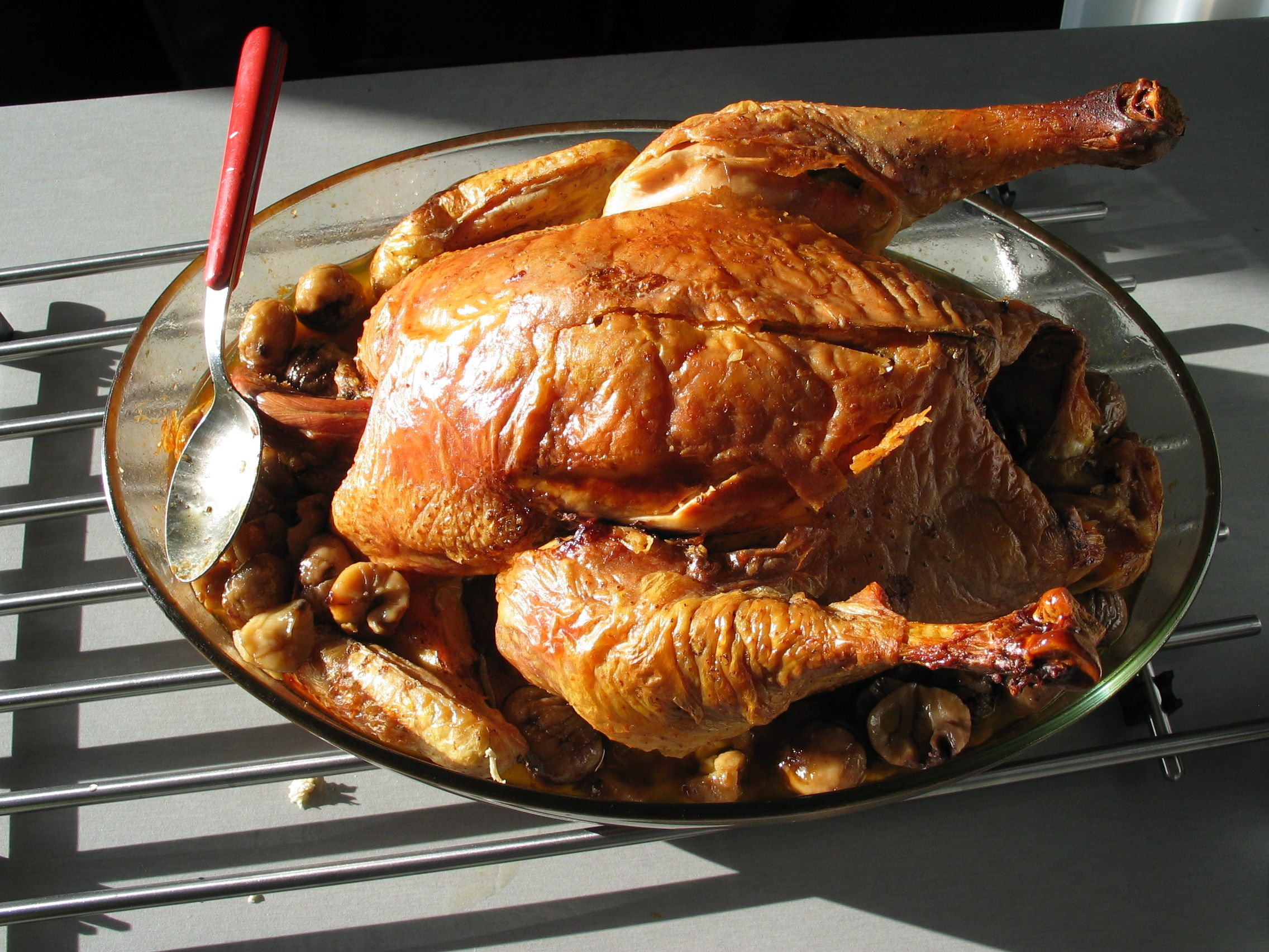 French capon.